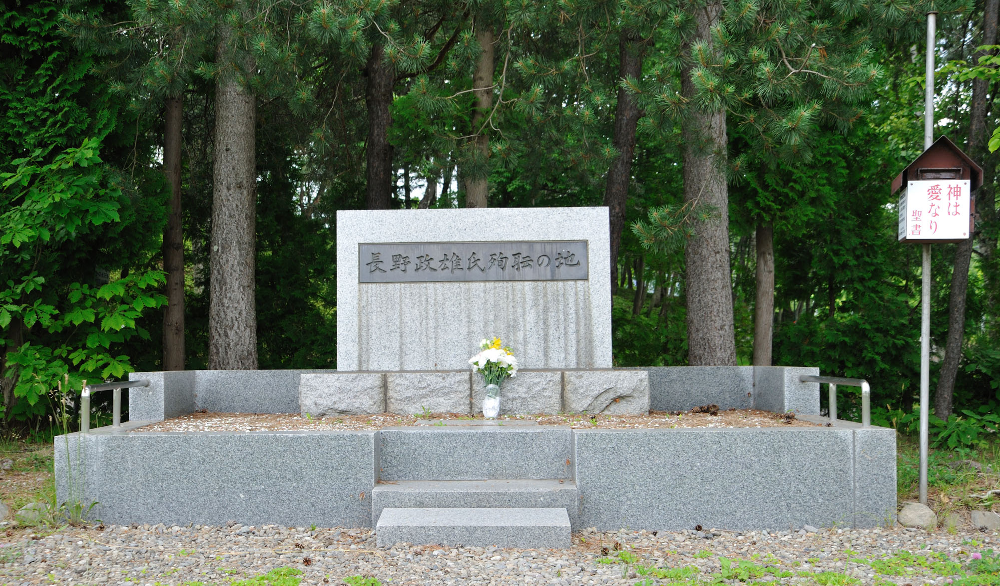 Monument of Masao Nagano, Wassamu, Hokkaido, Japan